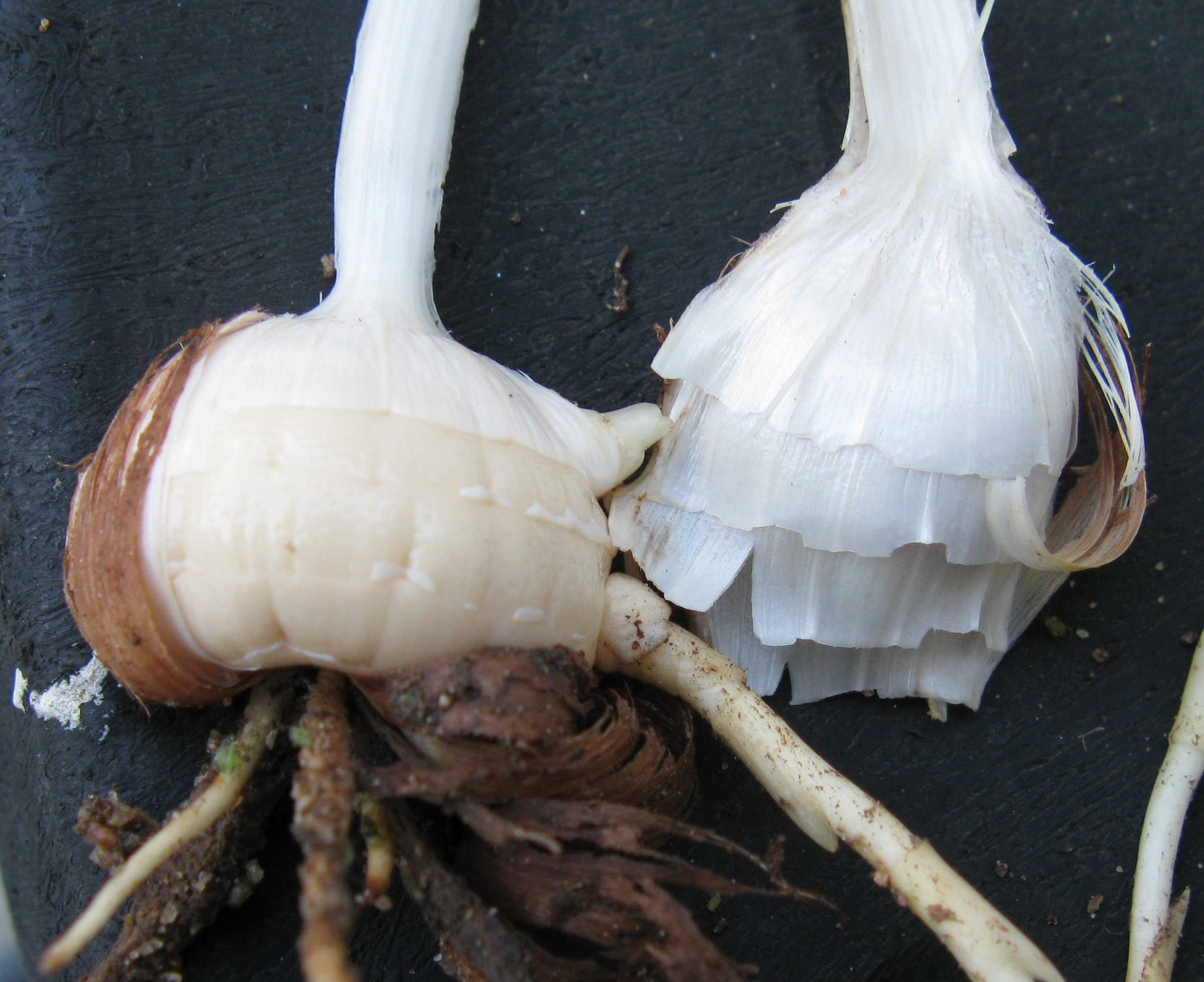 Tunic of Crocosmia stripped from corm to show the origin of the leaves from the corm nodes.